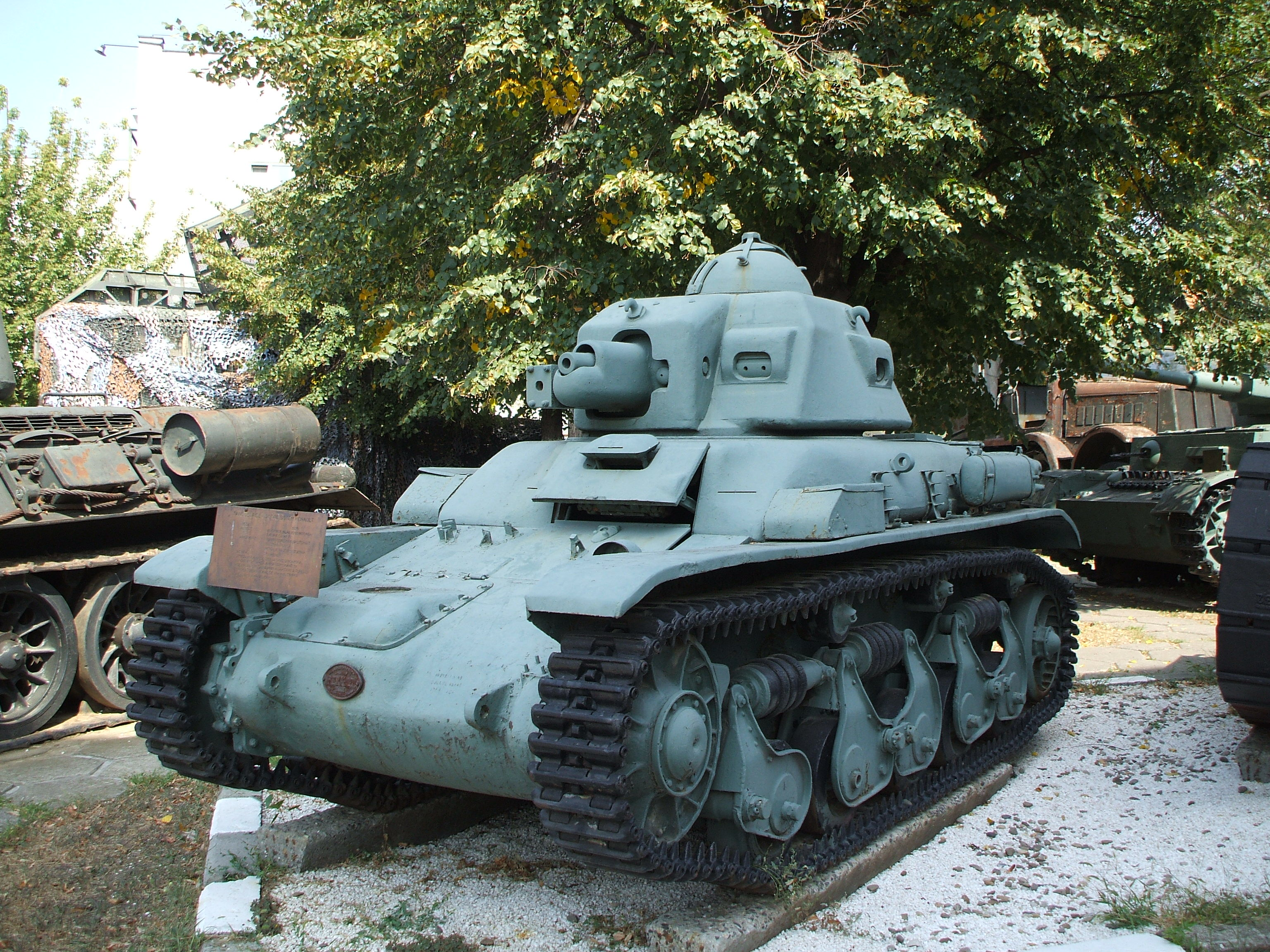 A Renault R35 tank on display at King Ferdinand National Military Museum, Bucharest.